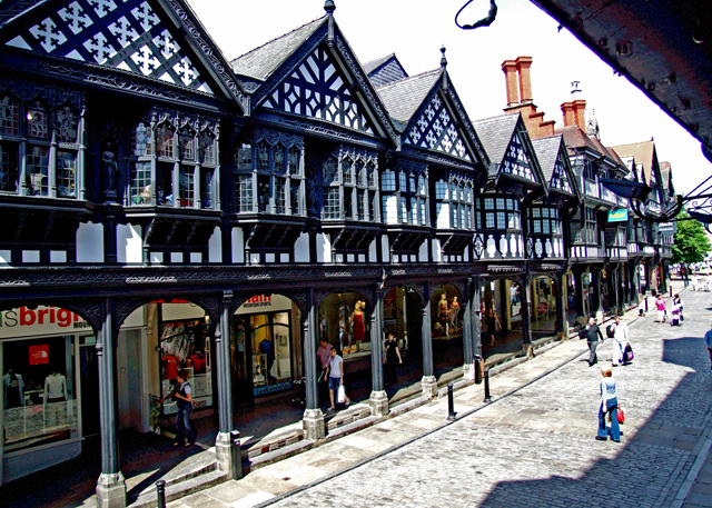 Northgate Street View from Northgate Street Row East.